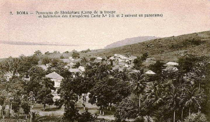 Boma seen from Fort de Shinkakasa